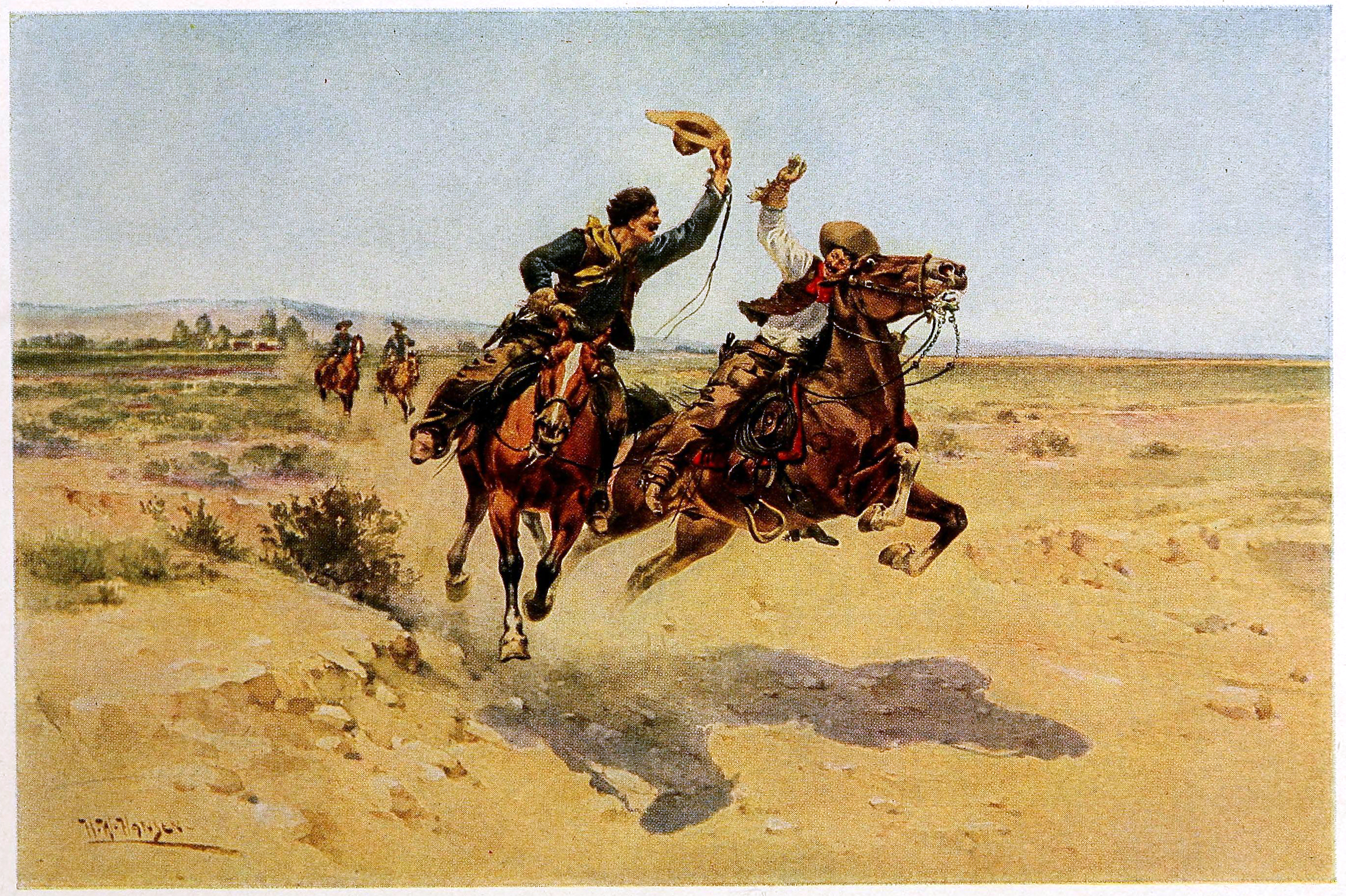 Illustration by Herman Wendelborg Hansen for Outing magazine